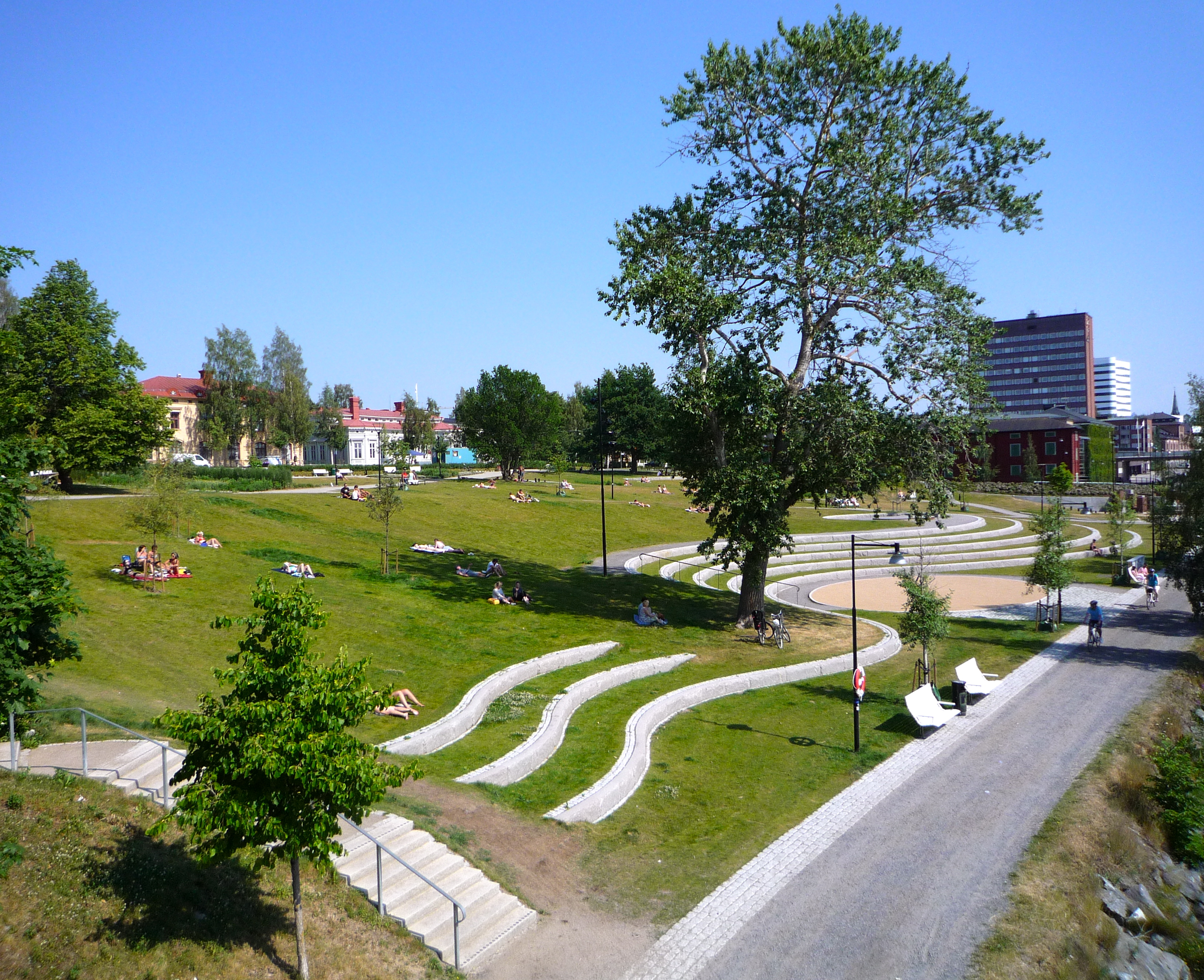 Broparken, seen from the "Old Bridge" in central Umeå.